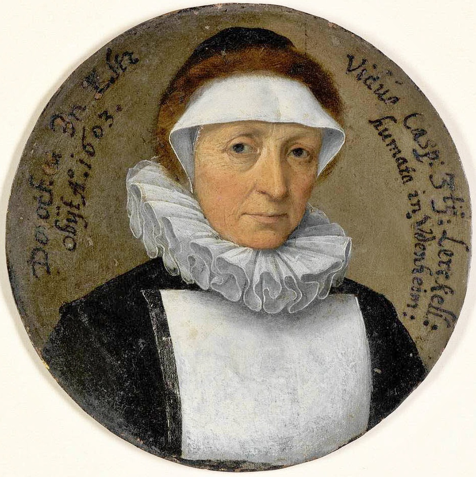 Dorothea Lerch von Dirmstein geb. von Eltz (+ 1603), Gattin Caspar III. Lerch von Dirmstein